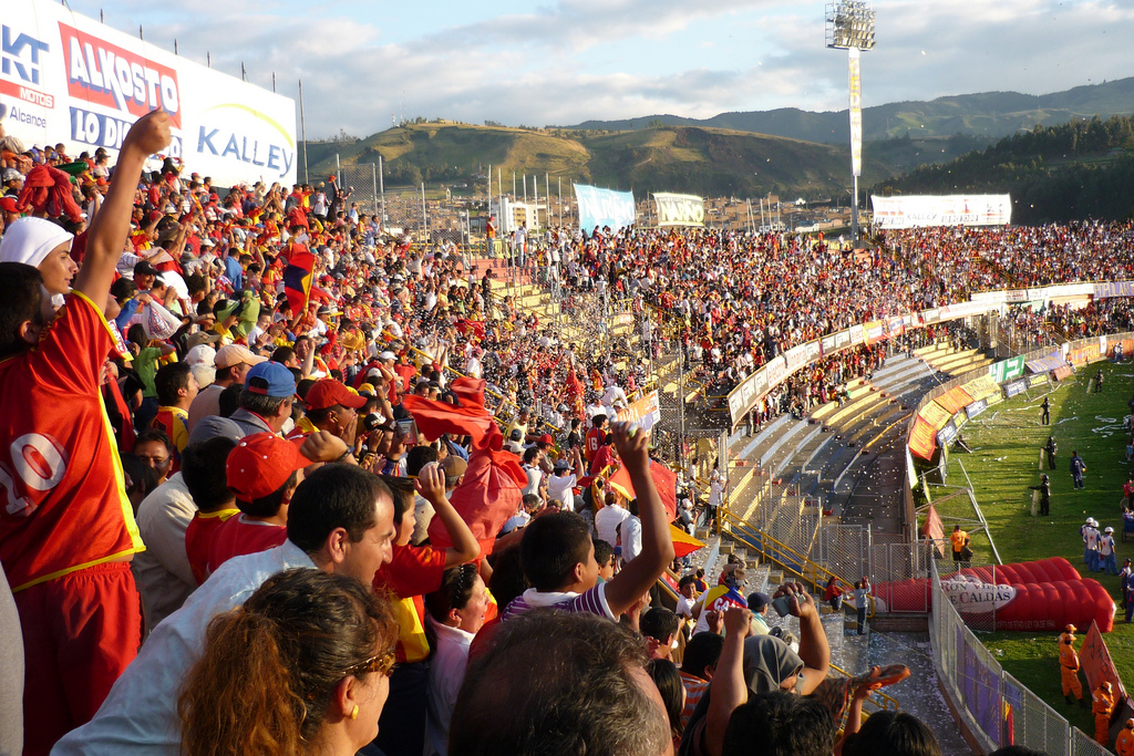 Departamental Libertad stadium